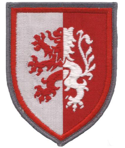 5th Armored Grenadiers Brigade